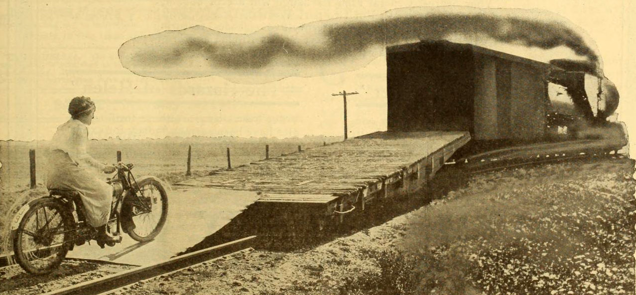 Advertisement in Moving Picture World, "In the Path of Peril" was episode 1 of the serial A Daughter of Daring.